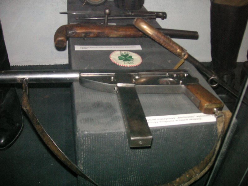 Polish WWII clandestinely-manufactured SMG Bechowiec-1, Warsaw's Museum of the Polish Army.